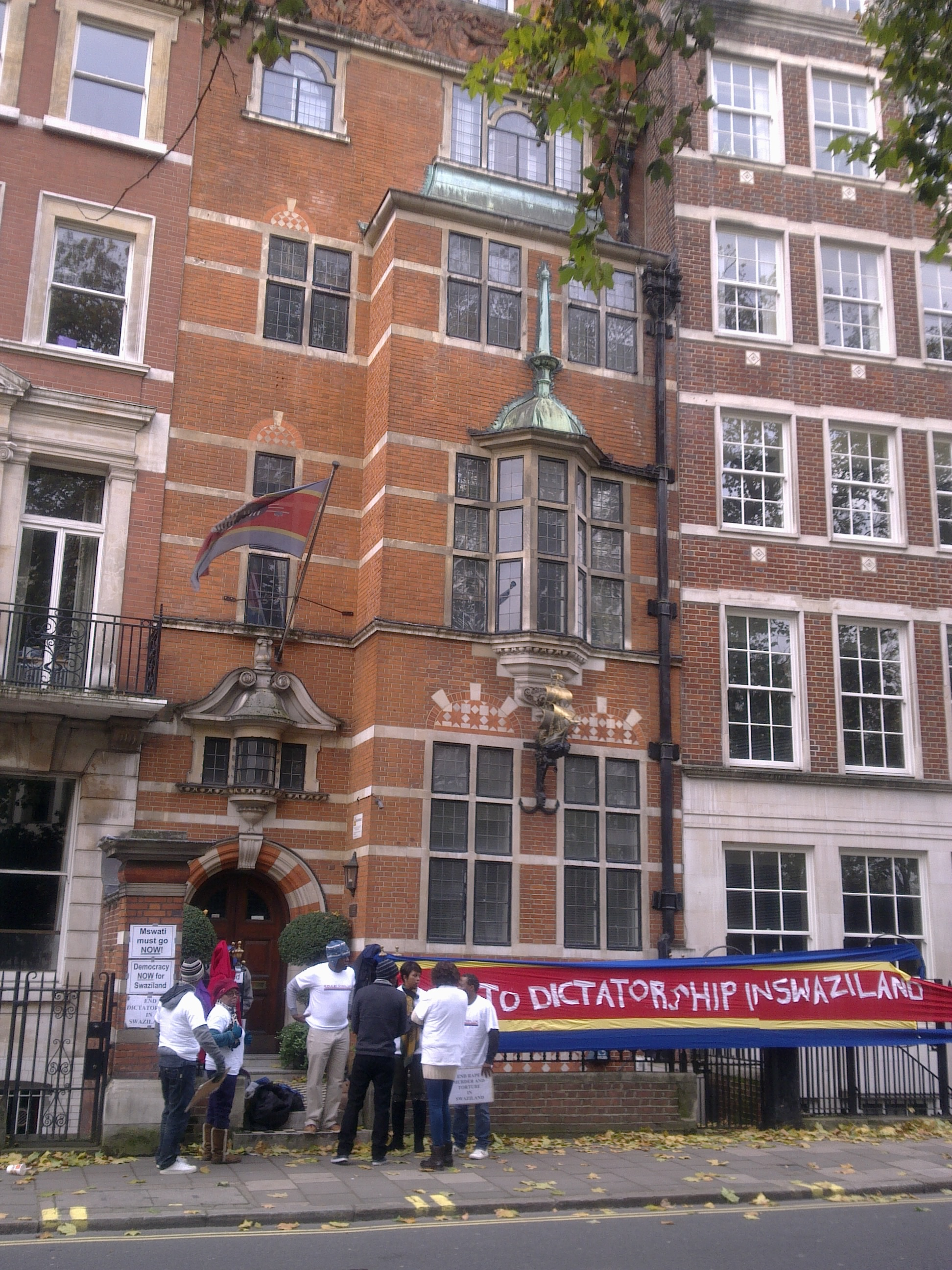 Demonstration in front of the High Commission of Swaziland (now Eswatini) in London